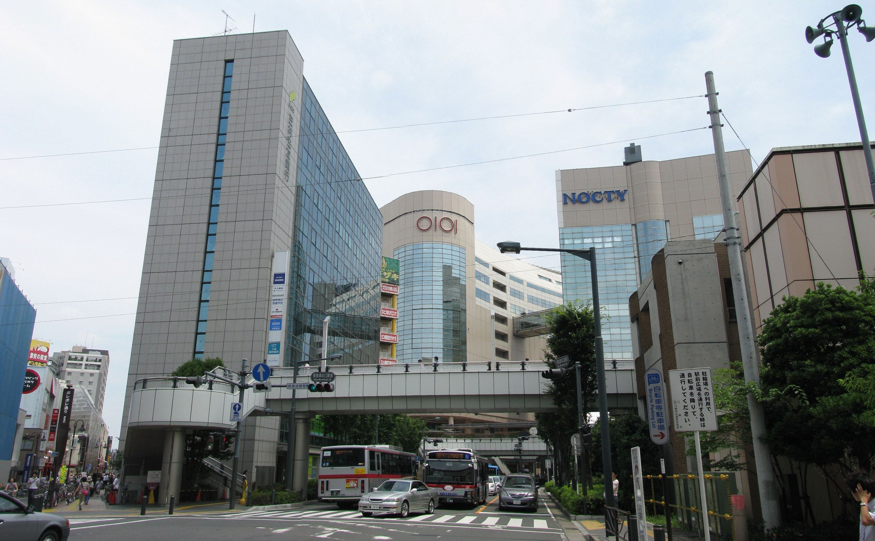 The Mizonokuchi is in Takatsu-ku, Kawasaki, Kanagawa Prefecture, Japan.